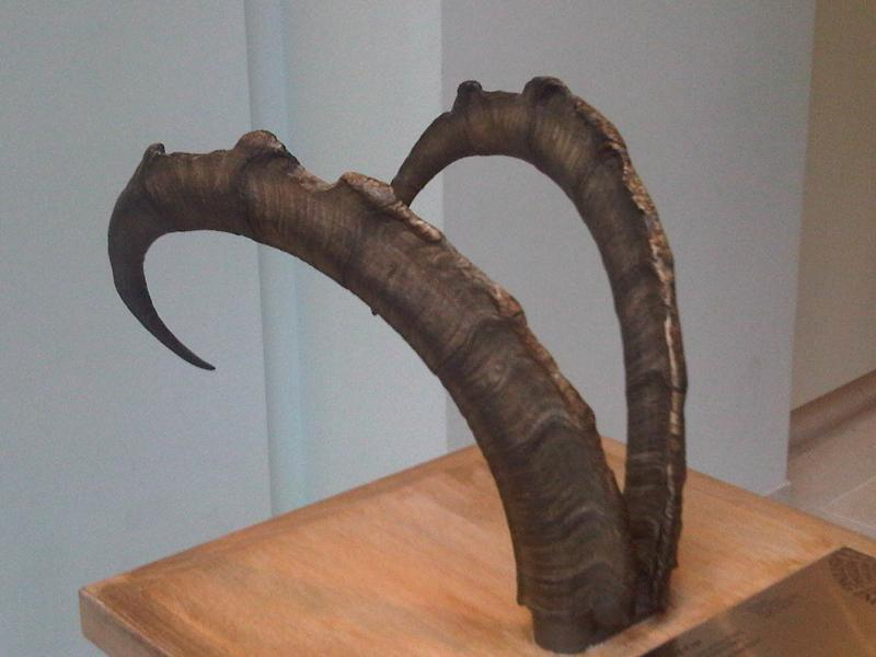 The horns of Bezoar Ibex (Capra aegagrus aegagrus) at the Natural History Museum in London, England.